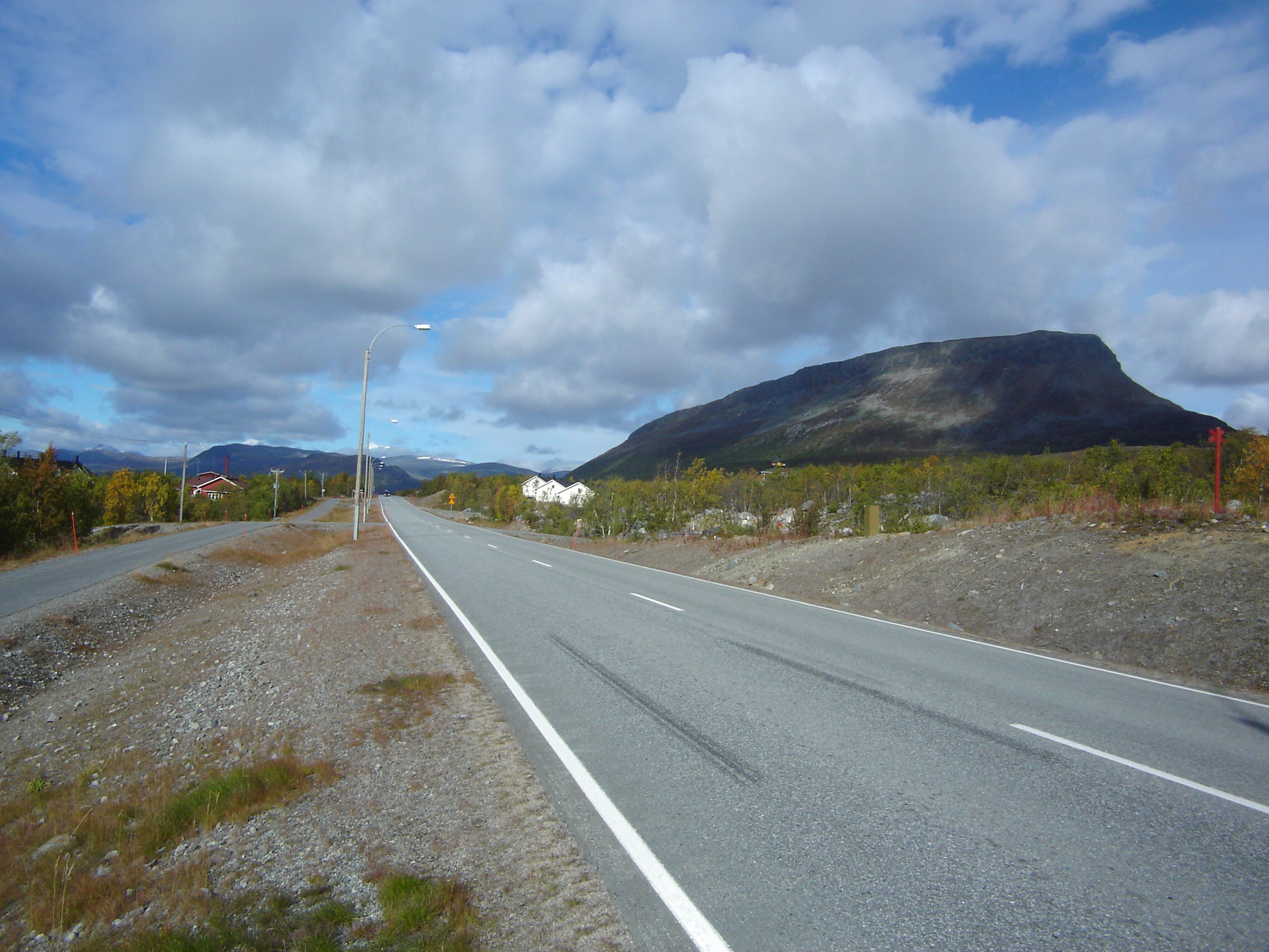 The village of Kilpisjärvi in the municipality of Enontekiö, Finland with the Saana fjell in the background and national road 21 (E8) in the foreground